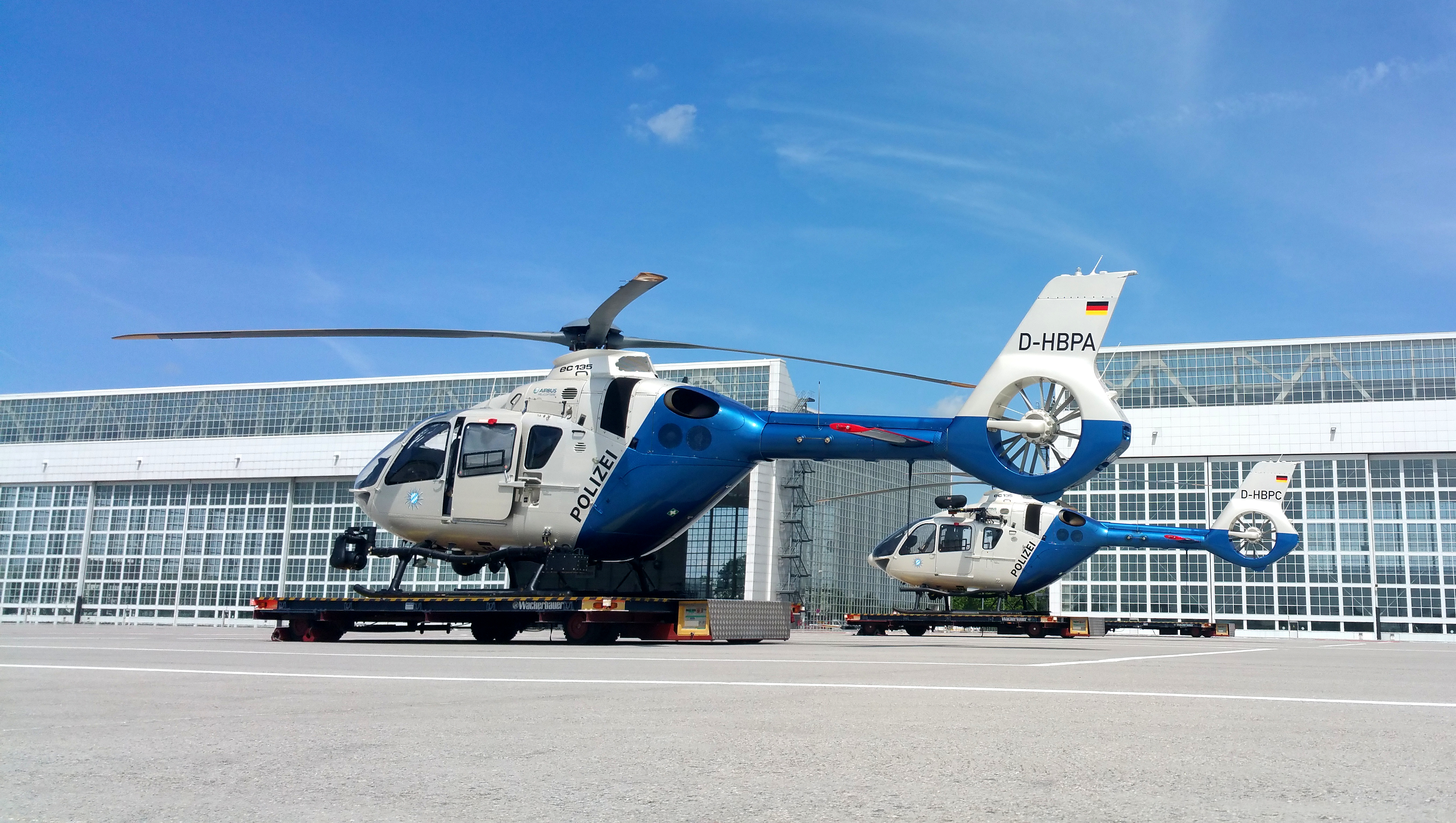 EC 135 P3 police helicopter / police helicopter squadron / bavarian state police